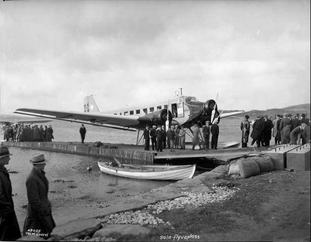 Det Norske Luftfarselskap Junkers Ju-52 at Stavanger Airport, Sola in 1937